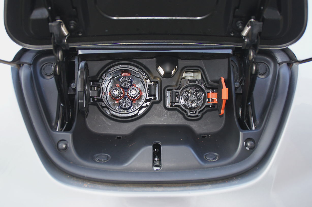 plugs Nissan Leaf 30kW. L: CHAdeMO. R: MODE 3 cable